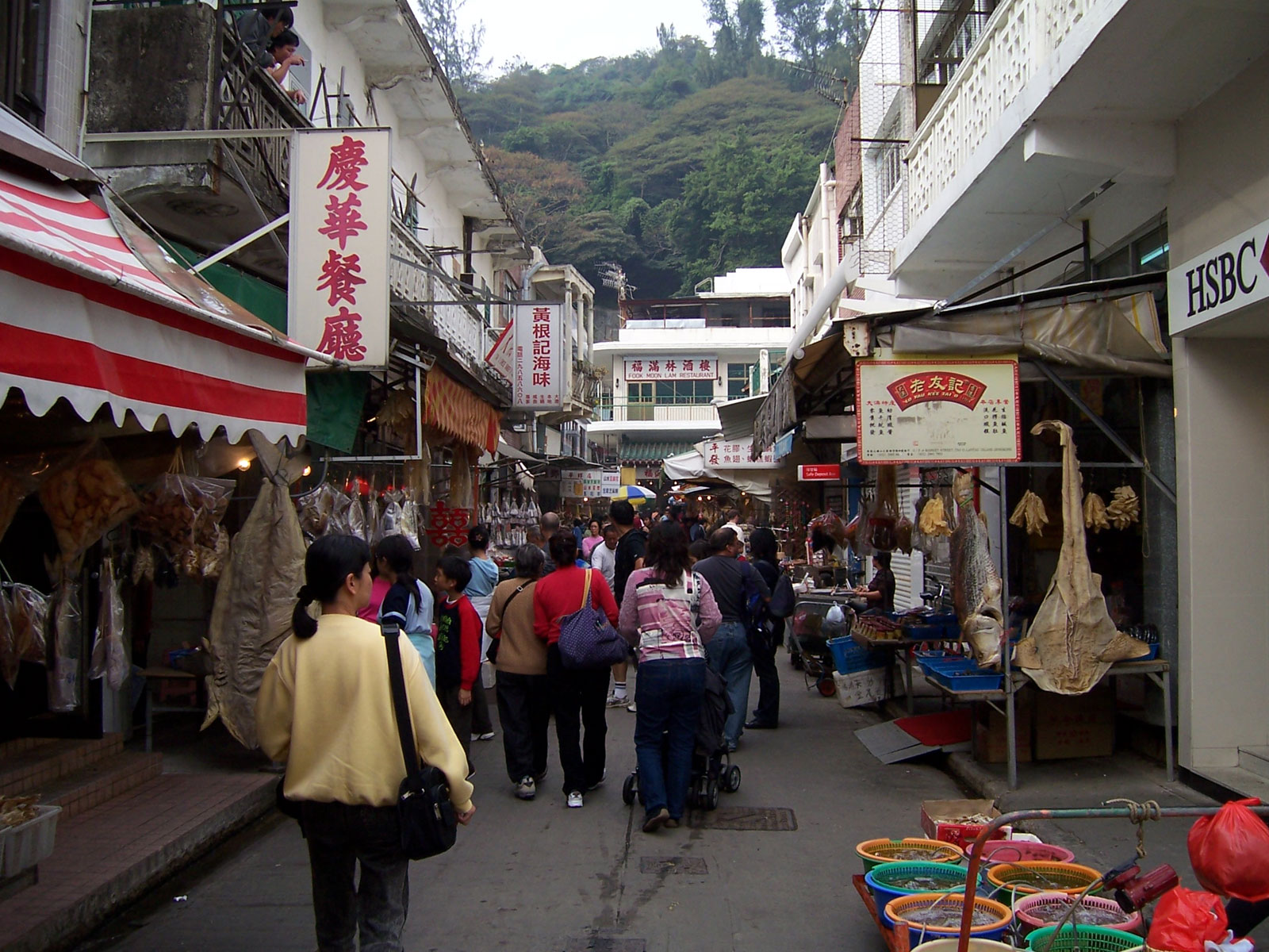 Street markets at Tai O. Taken by Enoch Lau on 31 December 2005. As a courtesy, please let me know if you alter this image or this image description page. Original filename was 100_1020.JPG.